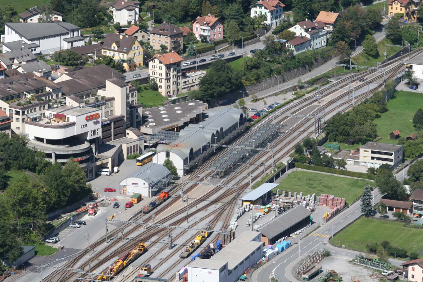 Bahnhof Thusis